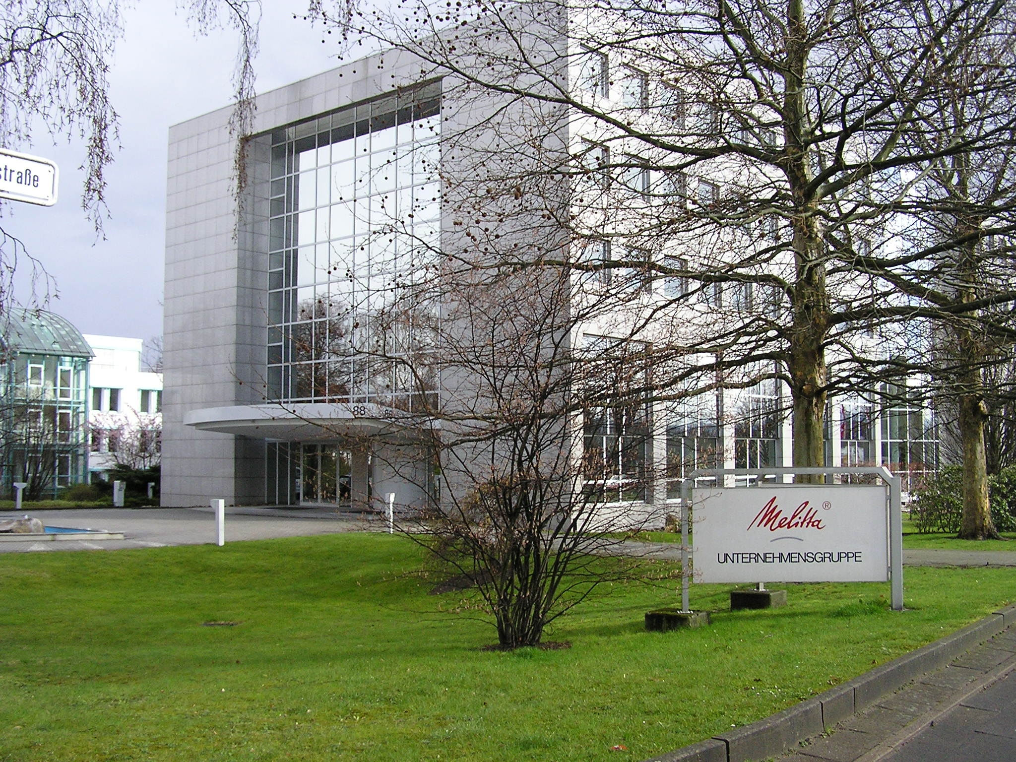 Headquarters of Melitta-Werke in Minden, North Rhine-Westphalia